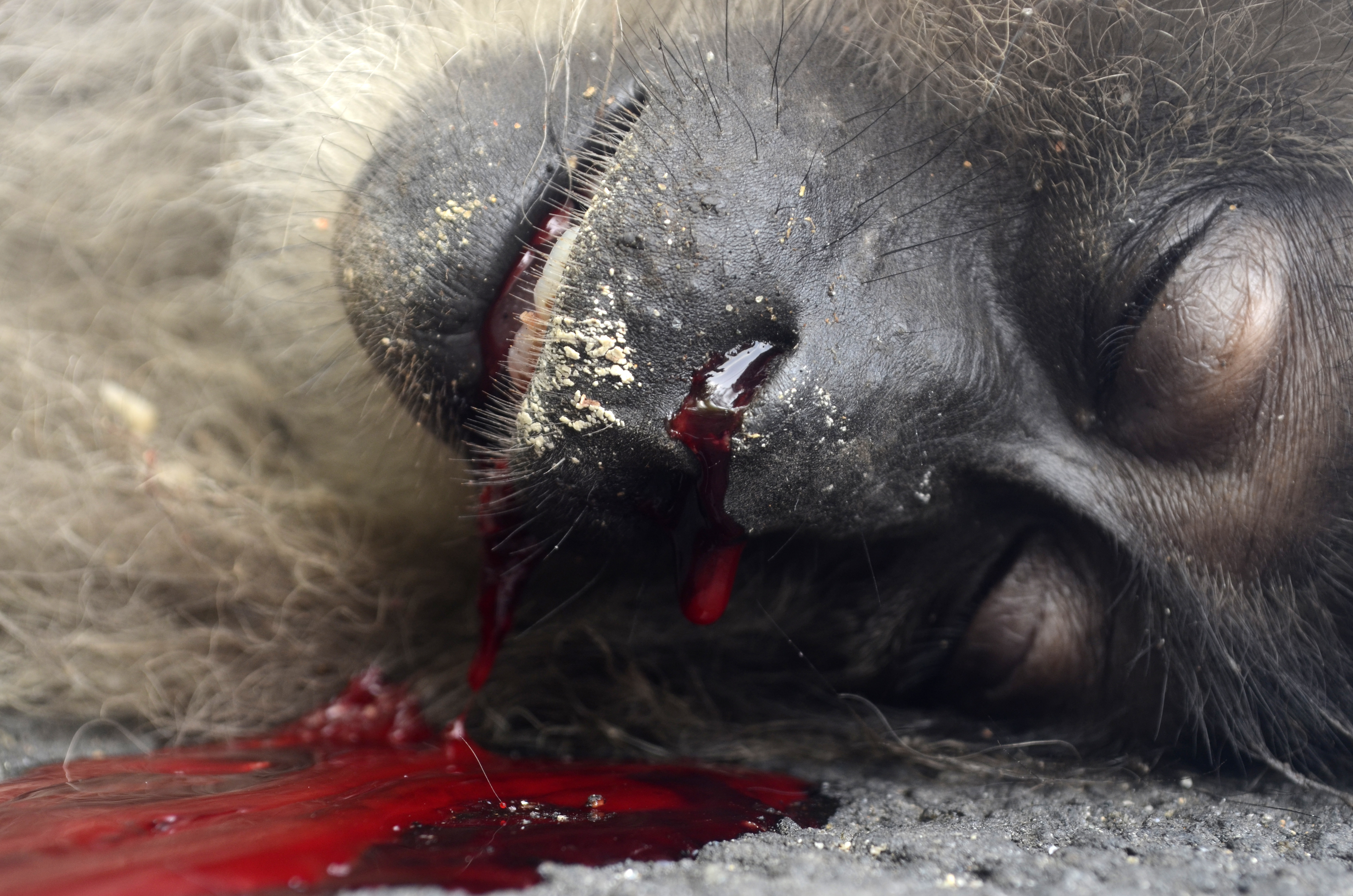 Lion-tailed macaque (Macaca silenus) roadkill in Valparai_Anaimalai hills